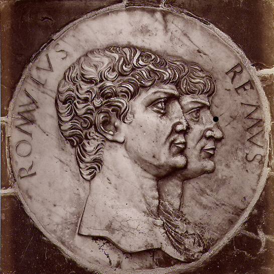 Brogi, Carlo (1850-1925), "Certosa di Pavia - Medallion at the base of the facade". The Latin inscription tells that these are Romulus and Remus. Catalogue # 8226.